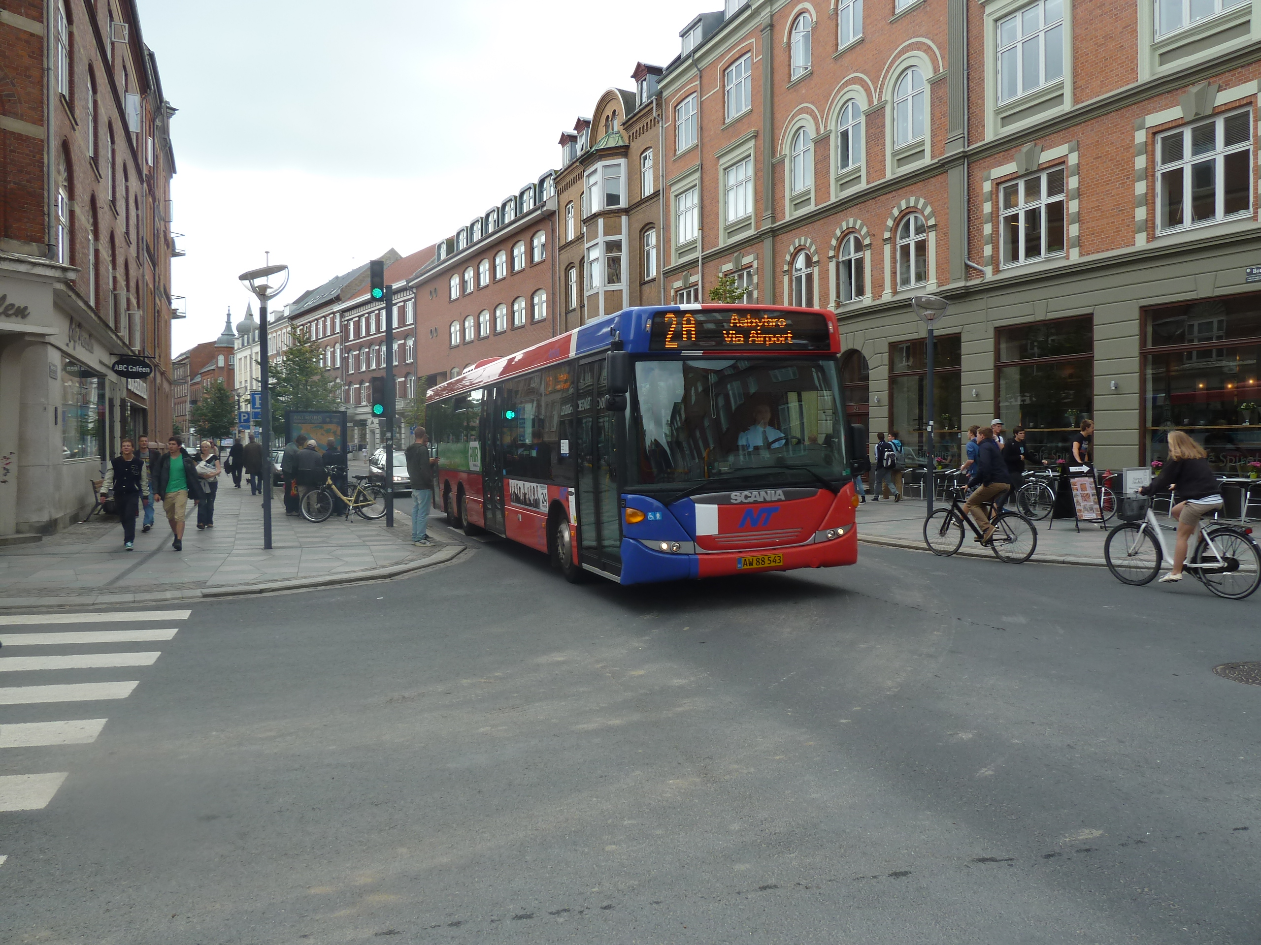 Bus line 2A on Boulevarden in Aalborg in Denmark.